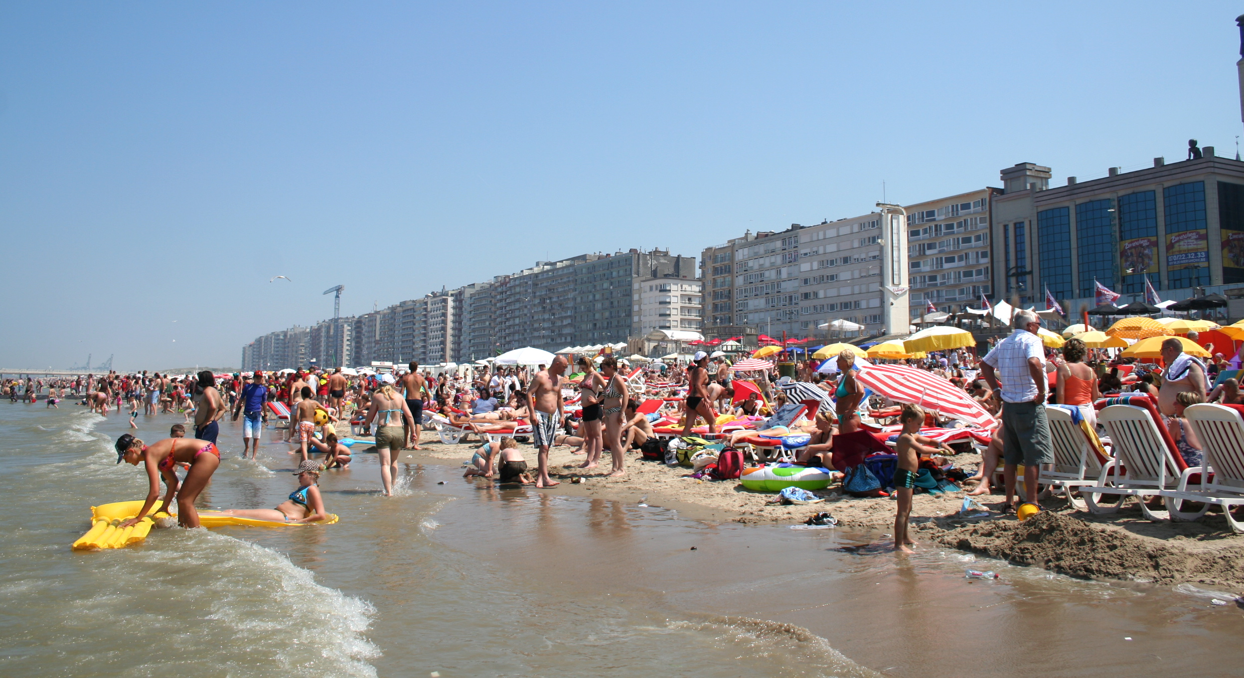 Beach at Blankenberge, Belgium. June 2010. Hot weather brought crowds to the beach.